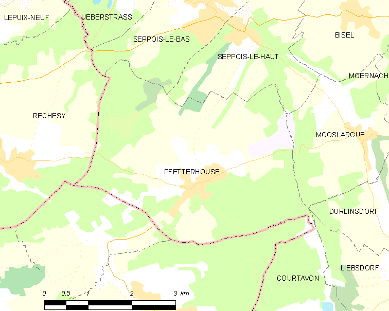 Map of French municipality